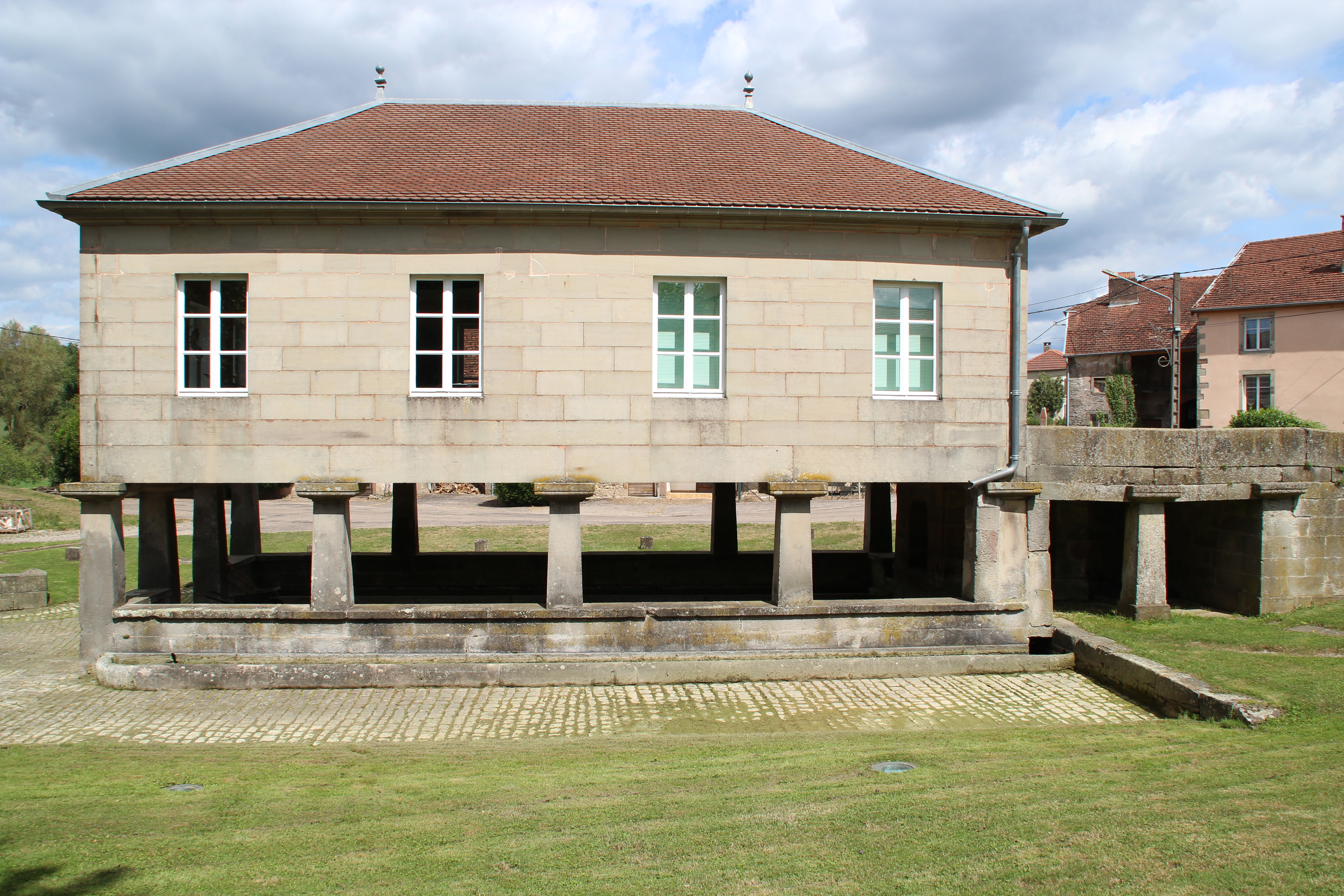 Town hall - wash house in Mailleroncourt-Saint-Pancras, France.